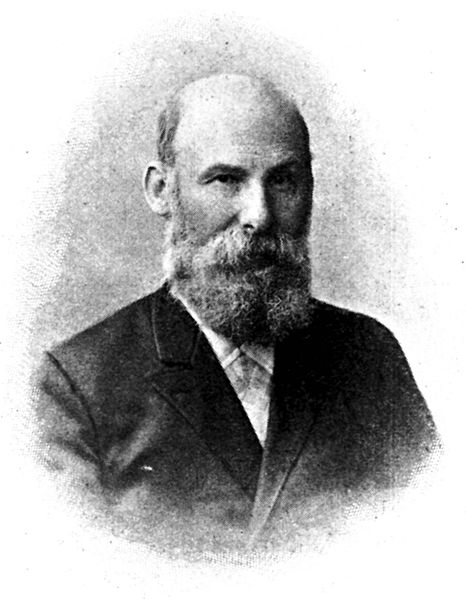 Julius Bernstein (18 December 1839 – 6 February 1917) was a German physiologist born in Berlin. His father was Aron Bernstein (1812—1884), a founder of the Reform Judaism Congregation in Berlin 1845; his son was the mathematician Felix Bernstein (1878—1956).